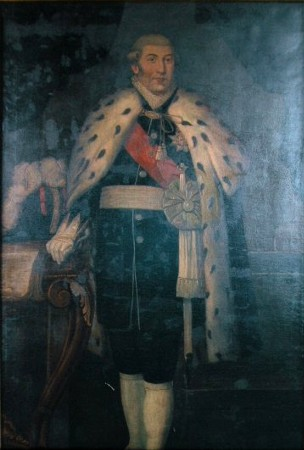 D. Diogo de Sousa (1755-1829), 1st Count of Rio Pardo and Viceroy of Portuguese India.